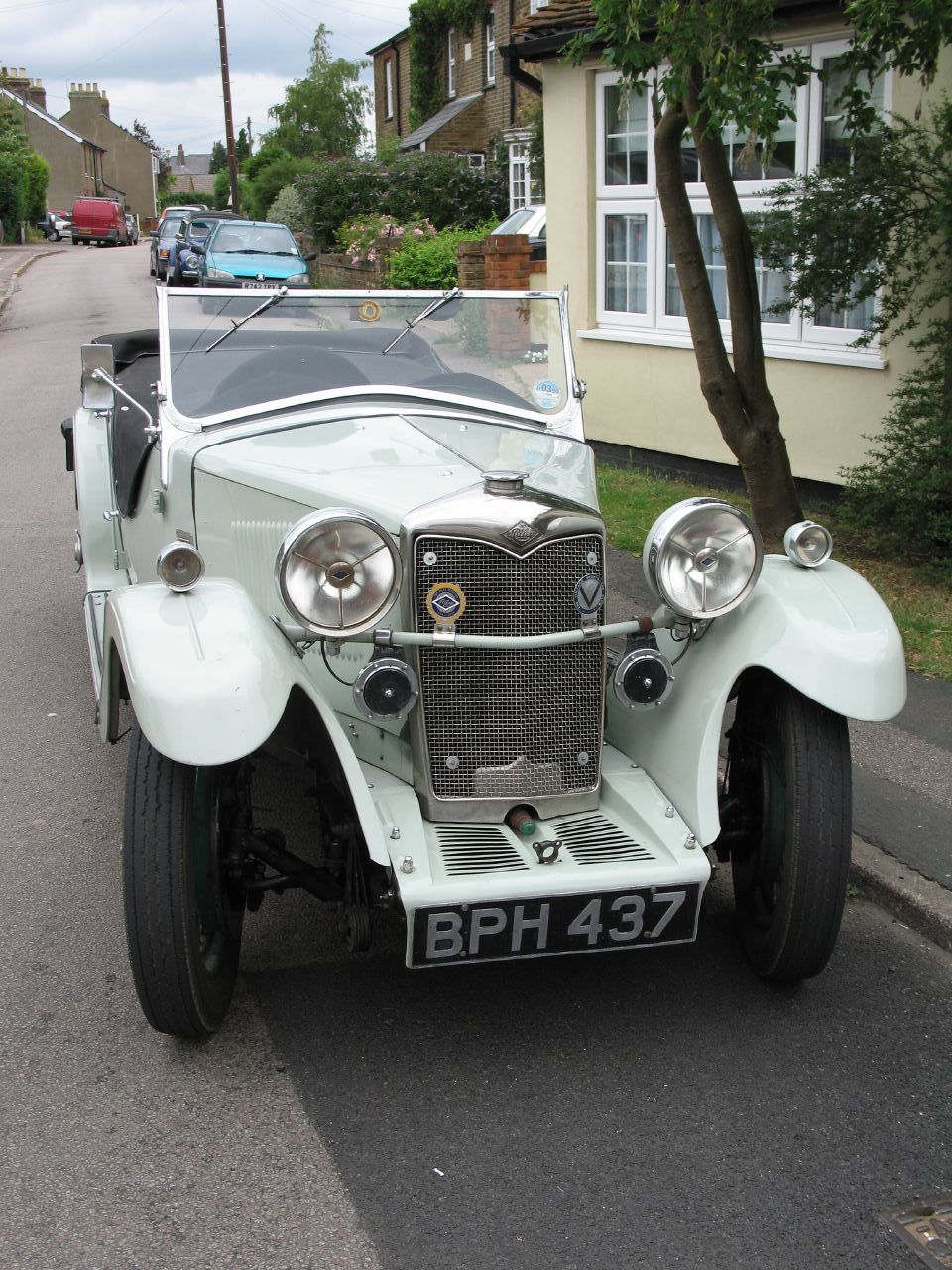 Riley Nine open 4-seater 1934(DVLA) first registered 1 July 1934, 1087ccMeet at The Goat pub in Hertford Heath